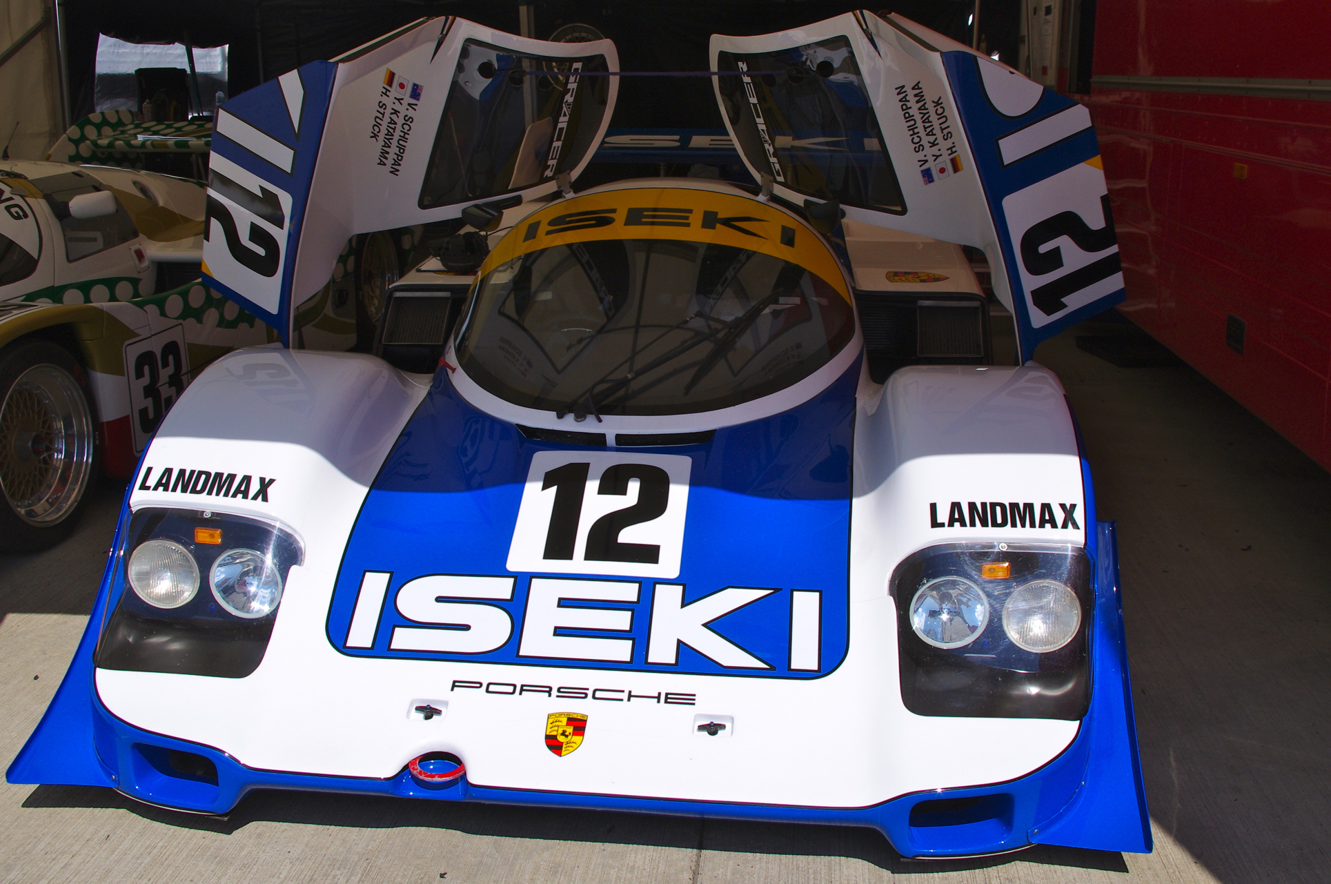 1984 Trust Racing Team'q Porsche 956-118 driven by Vern Schuppan, Yoshimi Katayama and Hans-Joachim Stuck in the All Japan Sports Prototype Car Endurance Championship